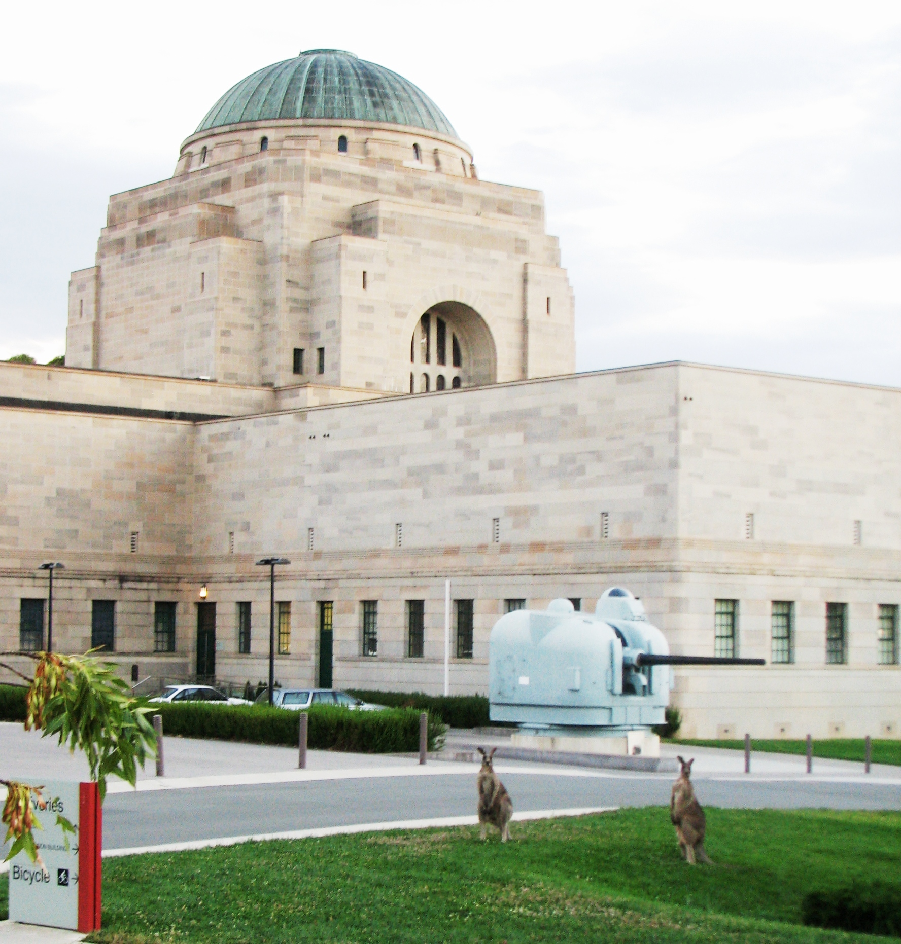 Dusk at the Australian War Memorial in Canberra. During dry times kangaroos make their way in from the surrounding bushland to feed on the well-watered green lawns of the Memorial. Here a couple pose before a 5-inch gun turret from now scrapped HMAS Brisbane, which saw service in Vietnam. See also File:HMAS Brisbane AWM Nov 08.JPG for same view in November 2008 after addition of HMAS Brisbane's bridge.